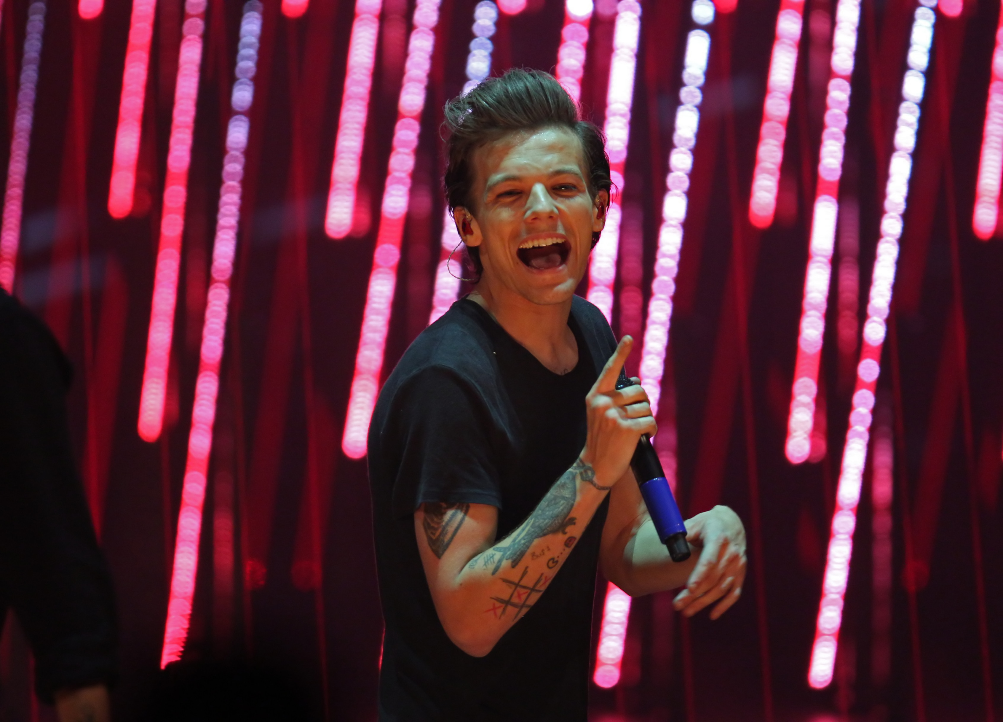 Wetten, dass.. ? 214. show in Graz, 8. Nov. 2014 Louis William Tomlinson at 214. Wetten, dass.. ? show in Graz, 8. Nov. 2014